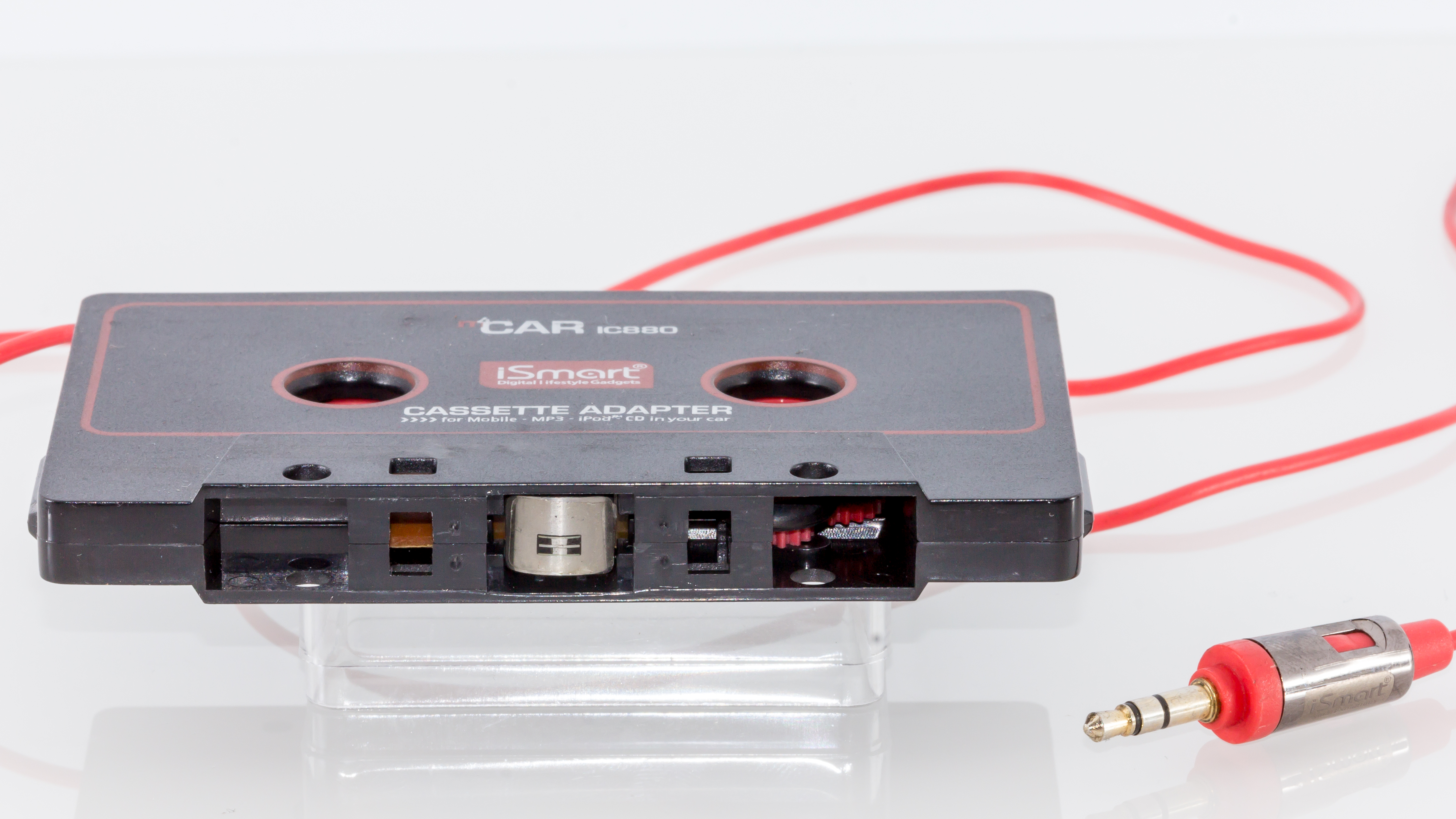 Cassette adapter iSmart Car IC880